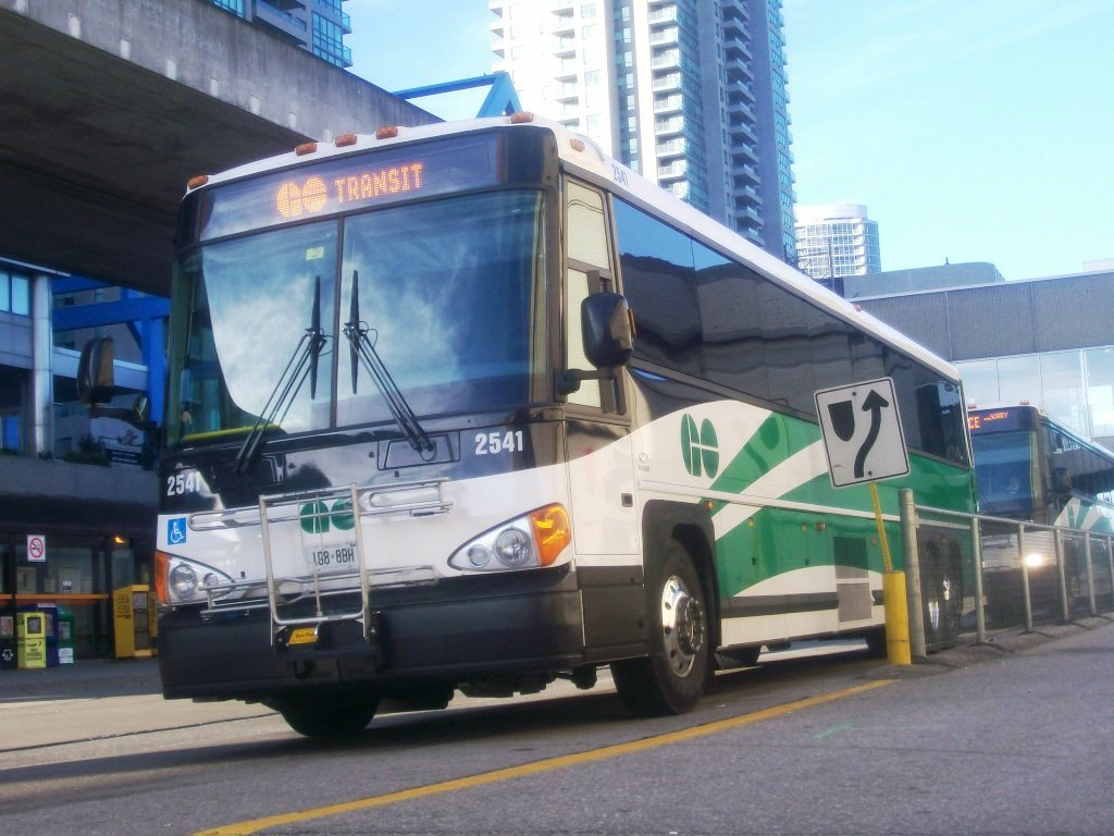 This is a Motor Coach Industries bus #2541 owned by GO Transit, a division of Metrolinx viewed from the Scarborough Town Centre bus terminal mall.